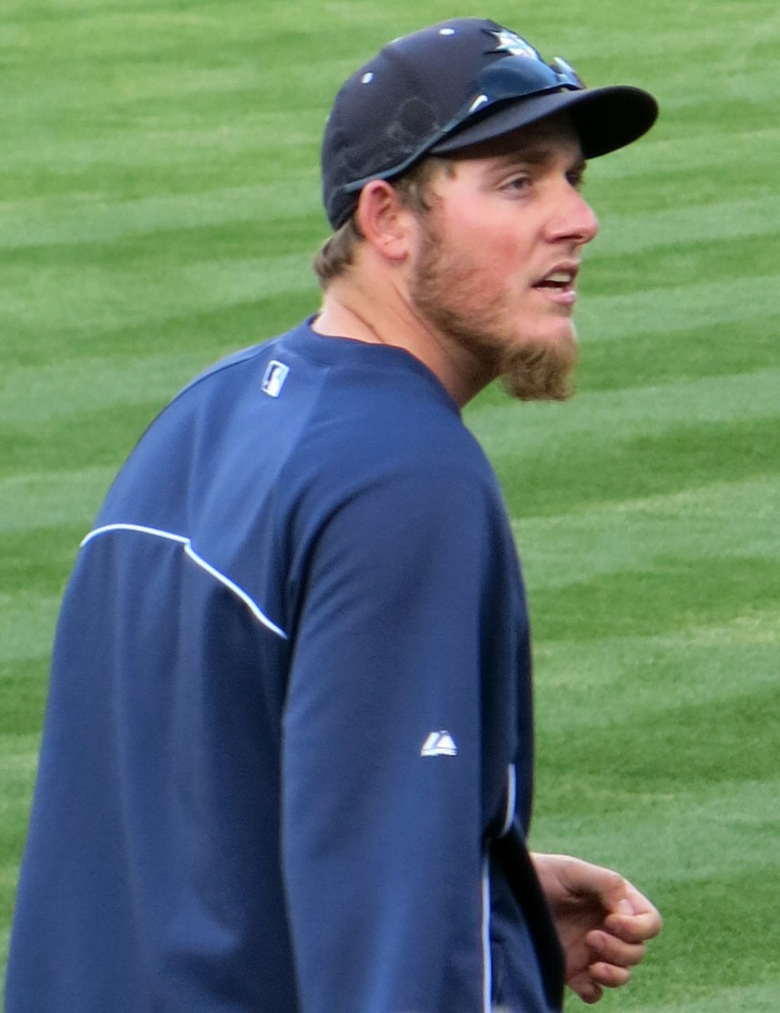 Seattle Mariners starting pitcher Brandon Maurer at a game against the Oakland Athletics in Oakland, California.